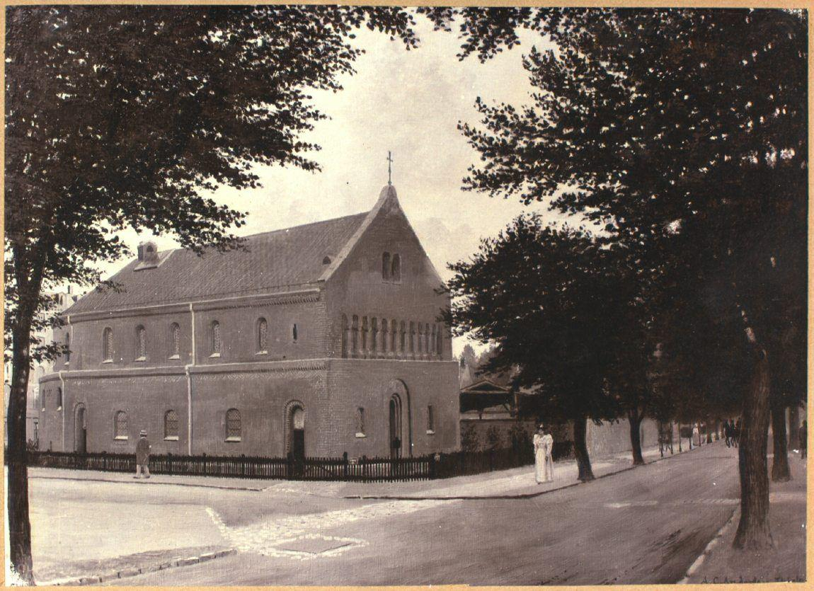 Immanuelskirken on Forhåbningsholms Allé in Frederiksberg, Copenhagen, Denmark